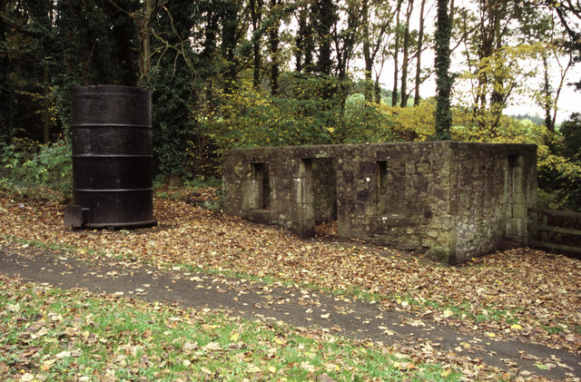 Watt's workshop, Kinneil, Bo'ness. The building is reputed to be James Watt's workshop by Kinneil House. The cylinder is from Schoolyard Pit, Bo'ness